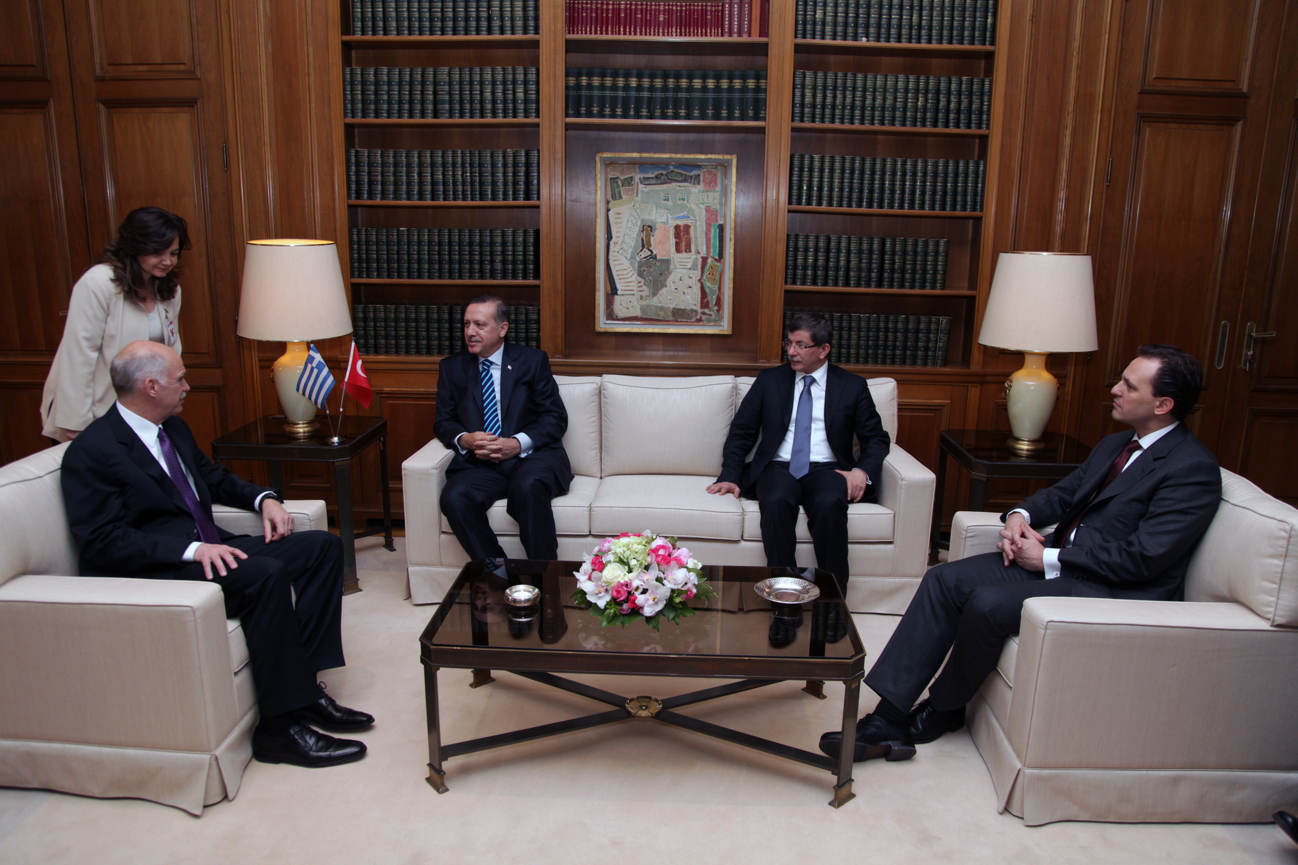 From left to right: Greek prime minister George Papandreou, Turkish prime minister Recep Tayyip Erdoğan, Turkish foreign minister Ahmet Davutoğlu and Greek foreign minister Dimitris Droutsas in Athens, Greece.